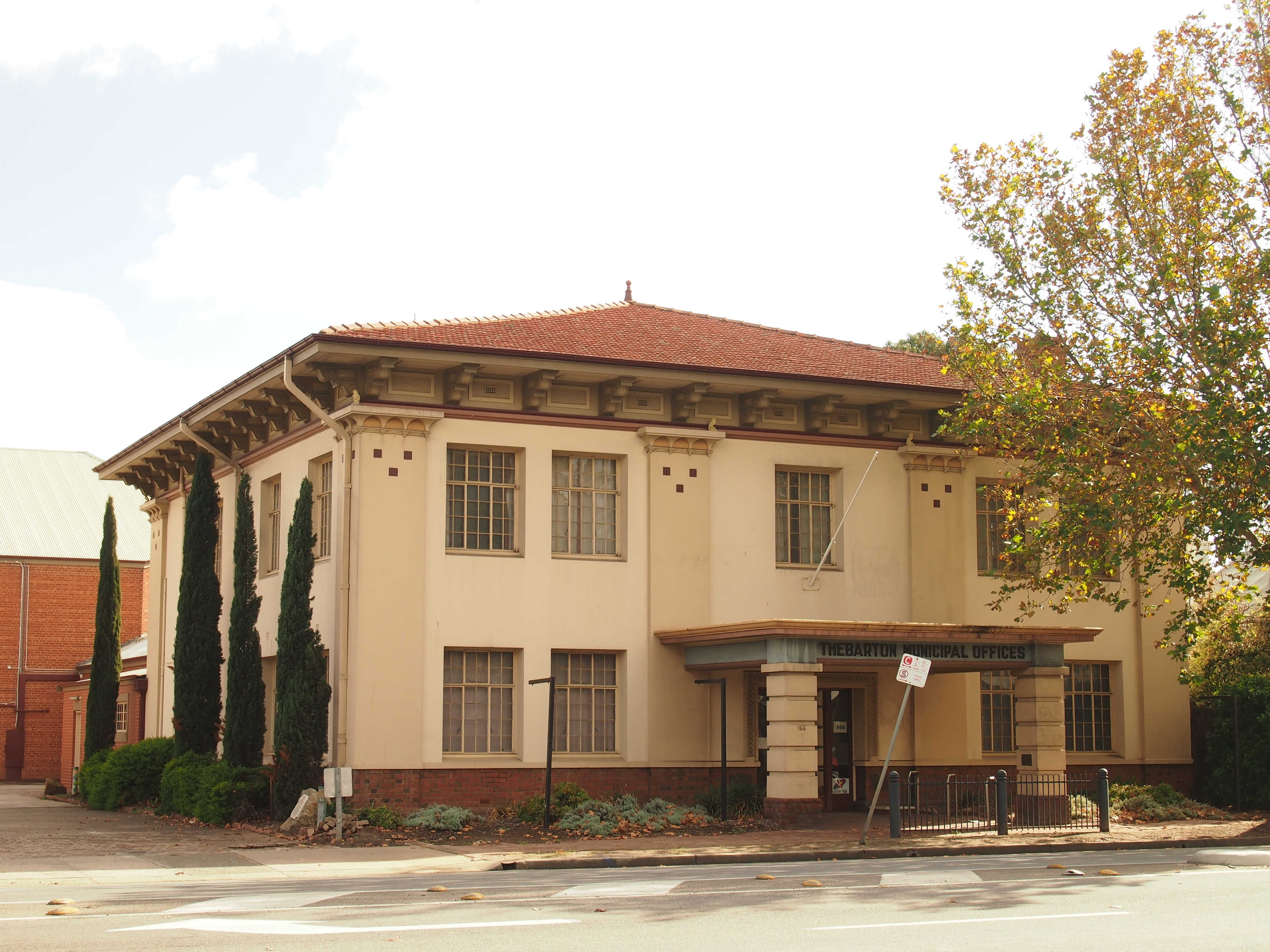 Former Thebarton Municipal Offices, 1928, facing South Road. Located in Torrensville, South Australia. Original filename = P5101987.JPG